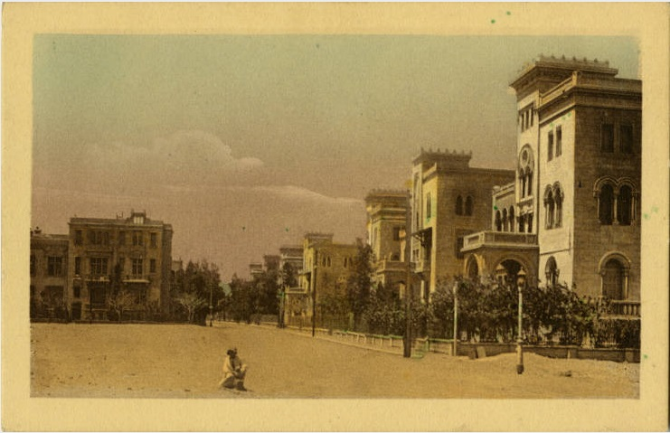 Postcard showing Boulevard Ibrahim in Heliopolis